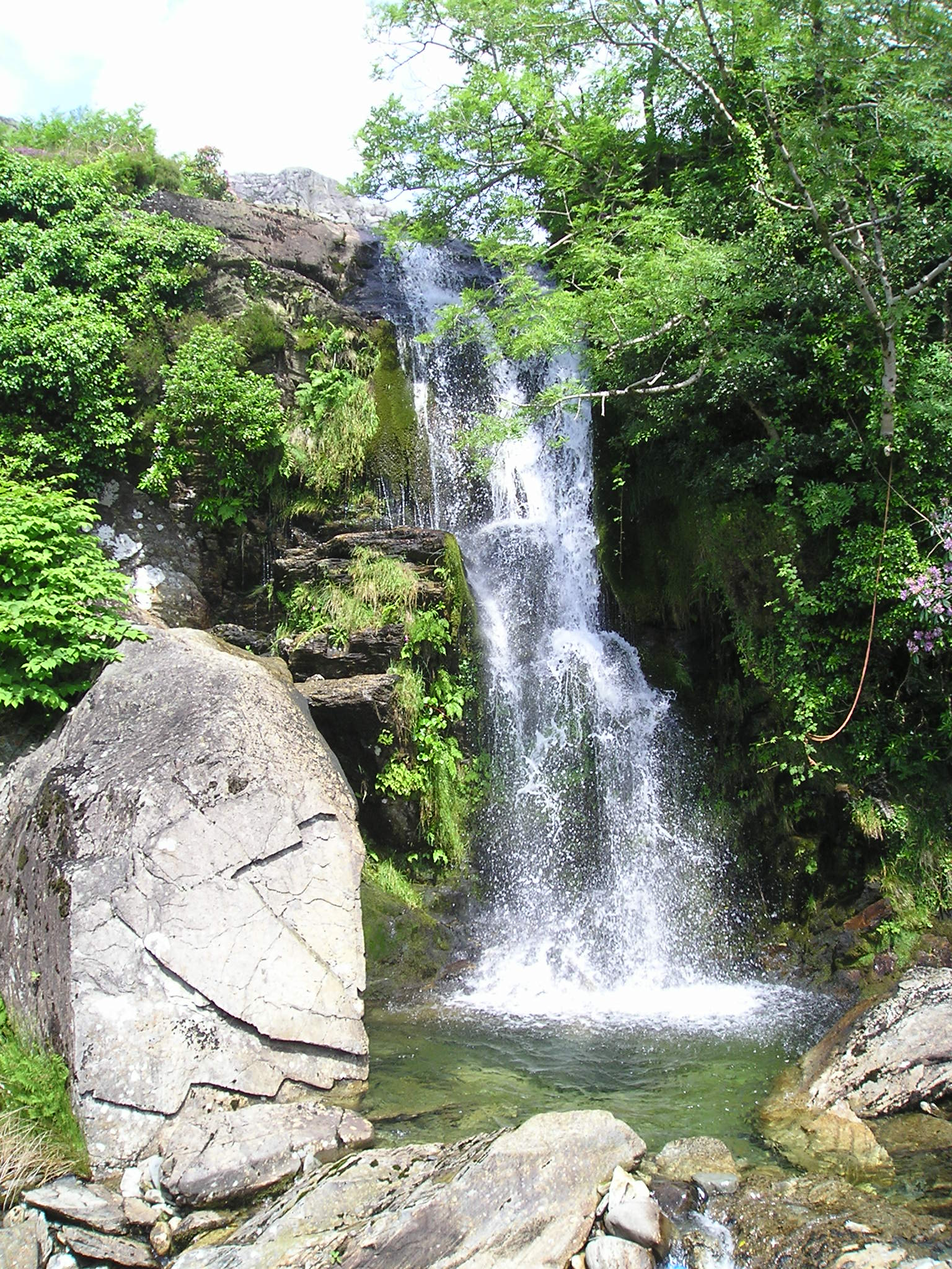 photo taken by me Noel Walley